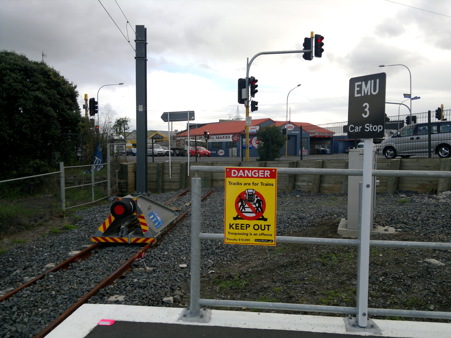 The end of the Onehunga Branch railway line. Onehunga Mall can be seen in the background. 2014